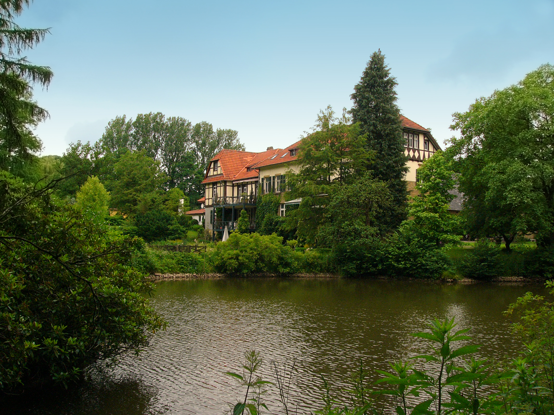 Manor Menkhausen in Oerlinghausen, Germany.